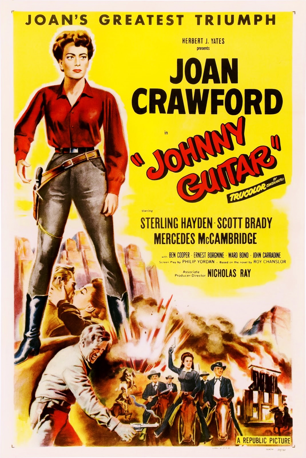 Poster for the 1954 film Johnny Guitar. The item has no copyright markings on it as can be seen in the links above. At bottom is Litho in USA, 45674 and 54/141. These look to be associated with the printing of the poster.